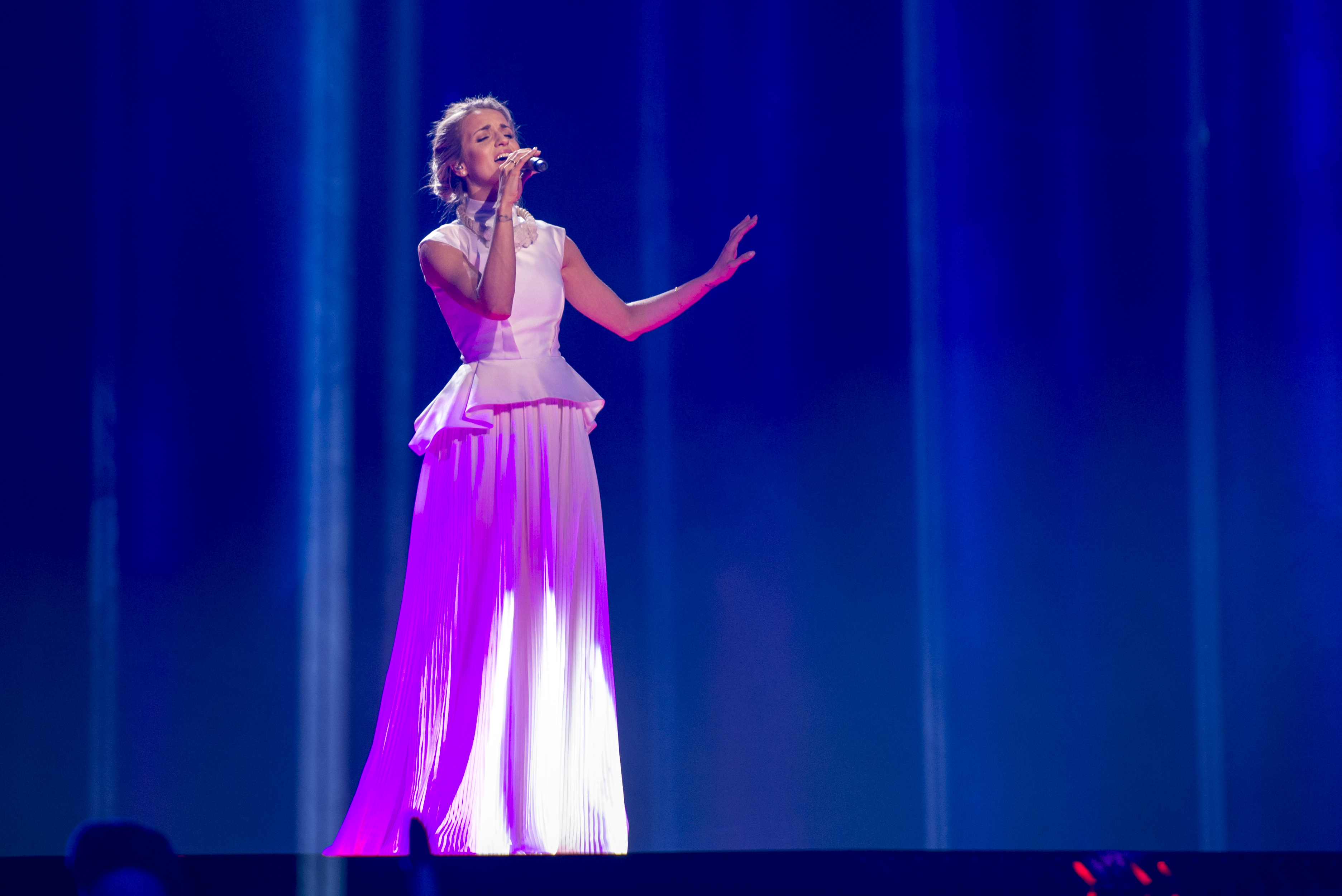 Gabriela Gunčíková representing Czech Republic with the song "I Stand" during a rehearsal before the first semi final of the Eurovision Song Contest 2016 in Stockholm. (Help translate this text)